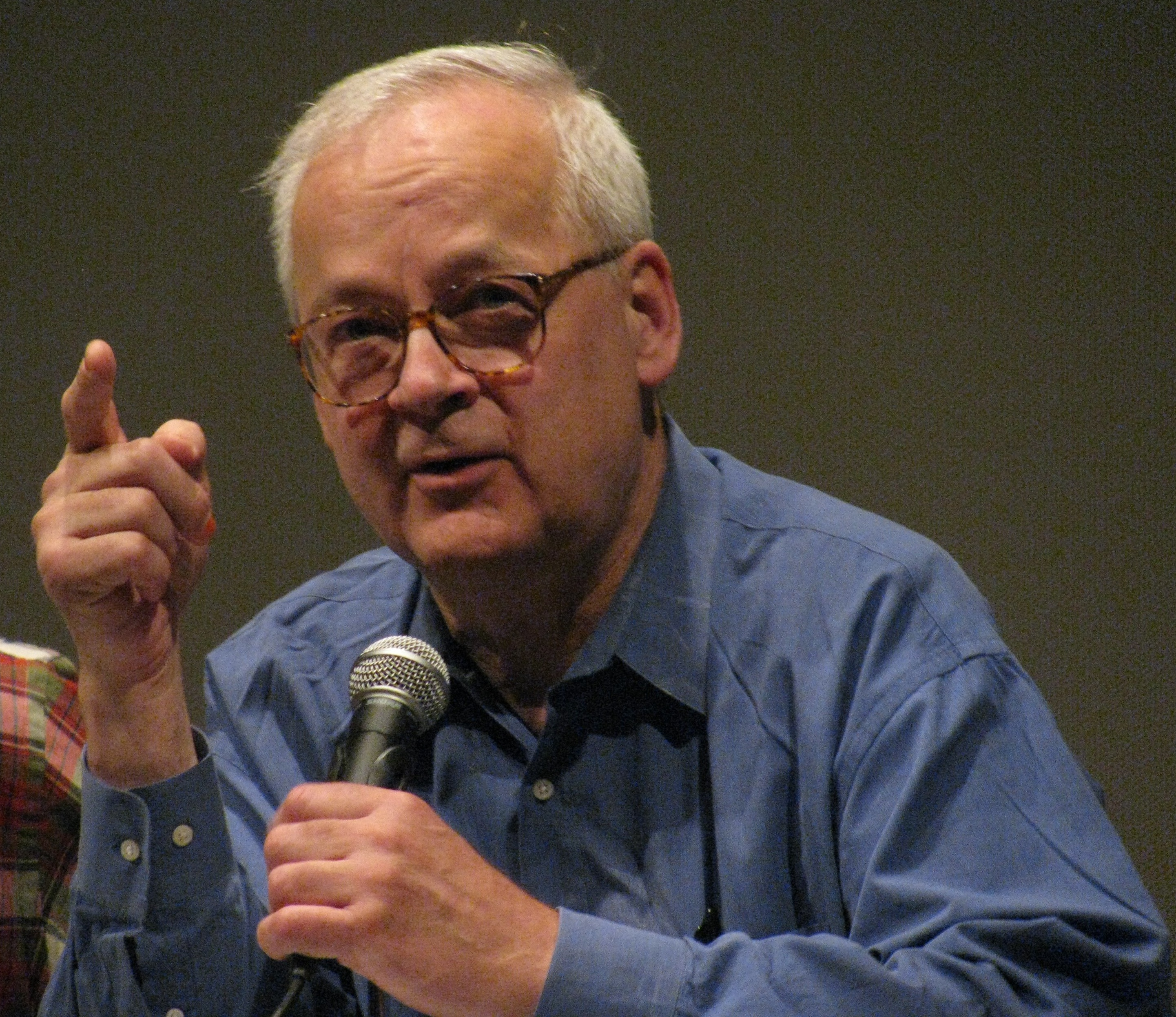 Tony Conrad at the Celebration of the 35th Anniversary of the Founding of Media Study (University at Buffalo)